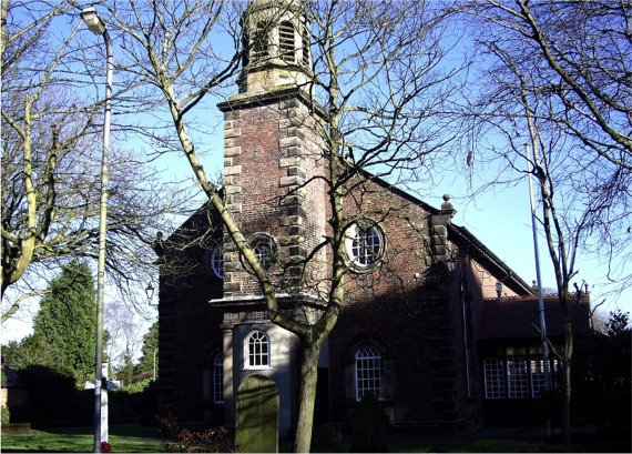 St Peter's parish church, Formby, Merseyside, seen from the southwest